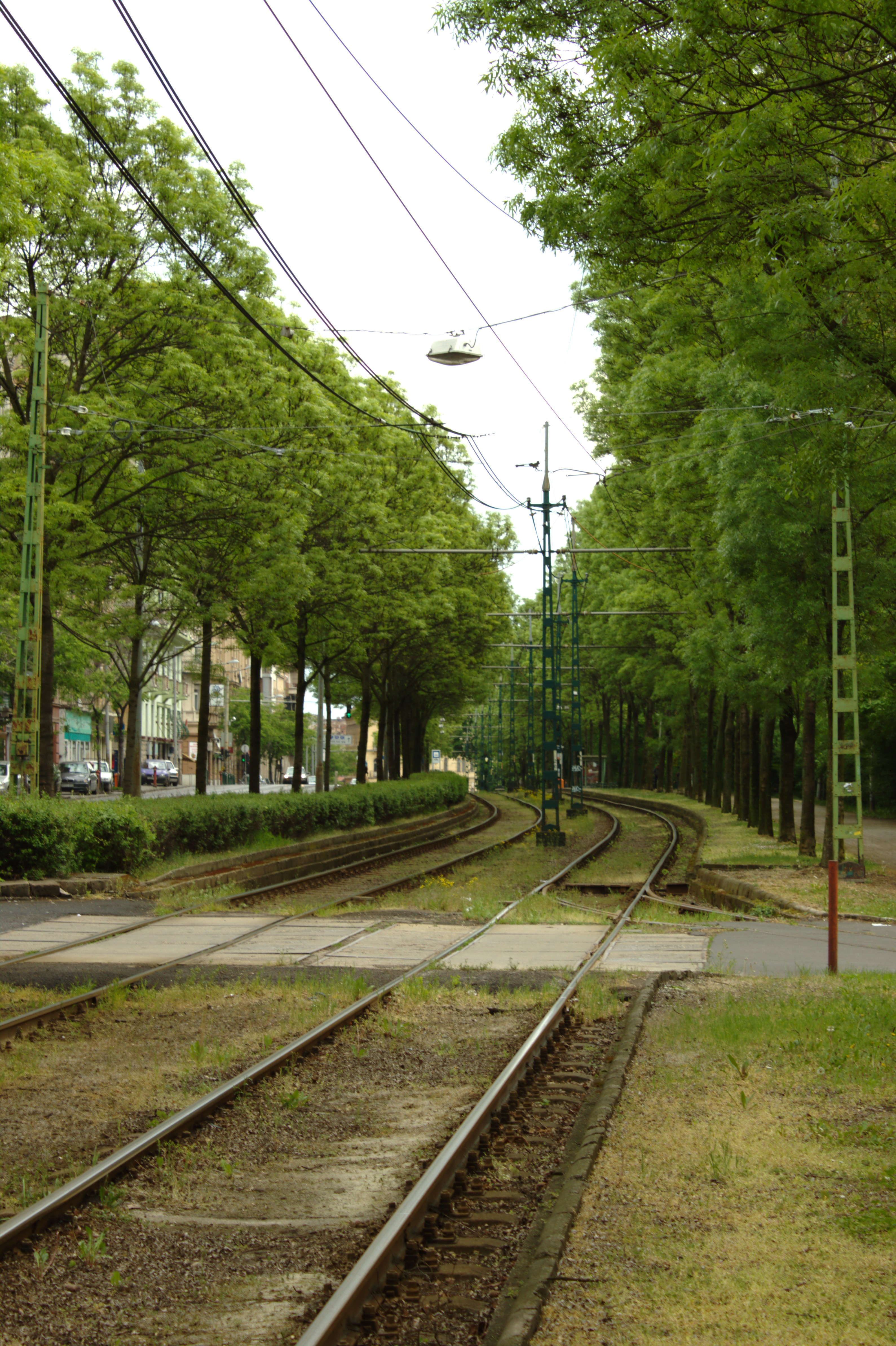 A tram track going around the Városmajor park in Budapest, Hungary